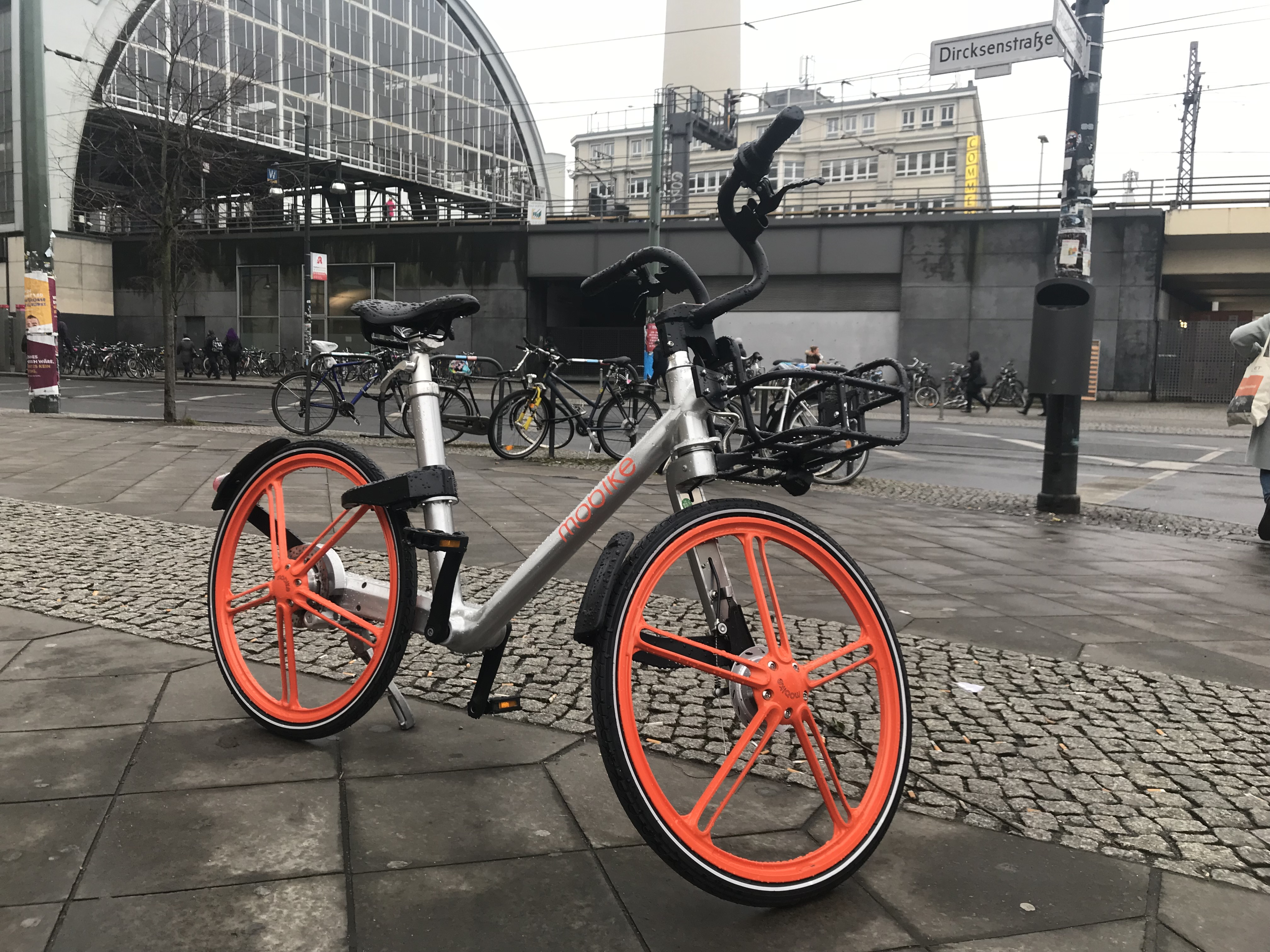 201803 a Mobike bicycle at Alexanderplatz. Haven't got photos on MAD's mobikes...